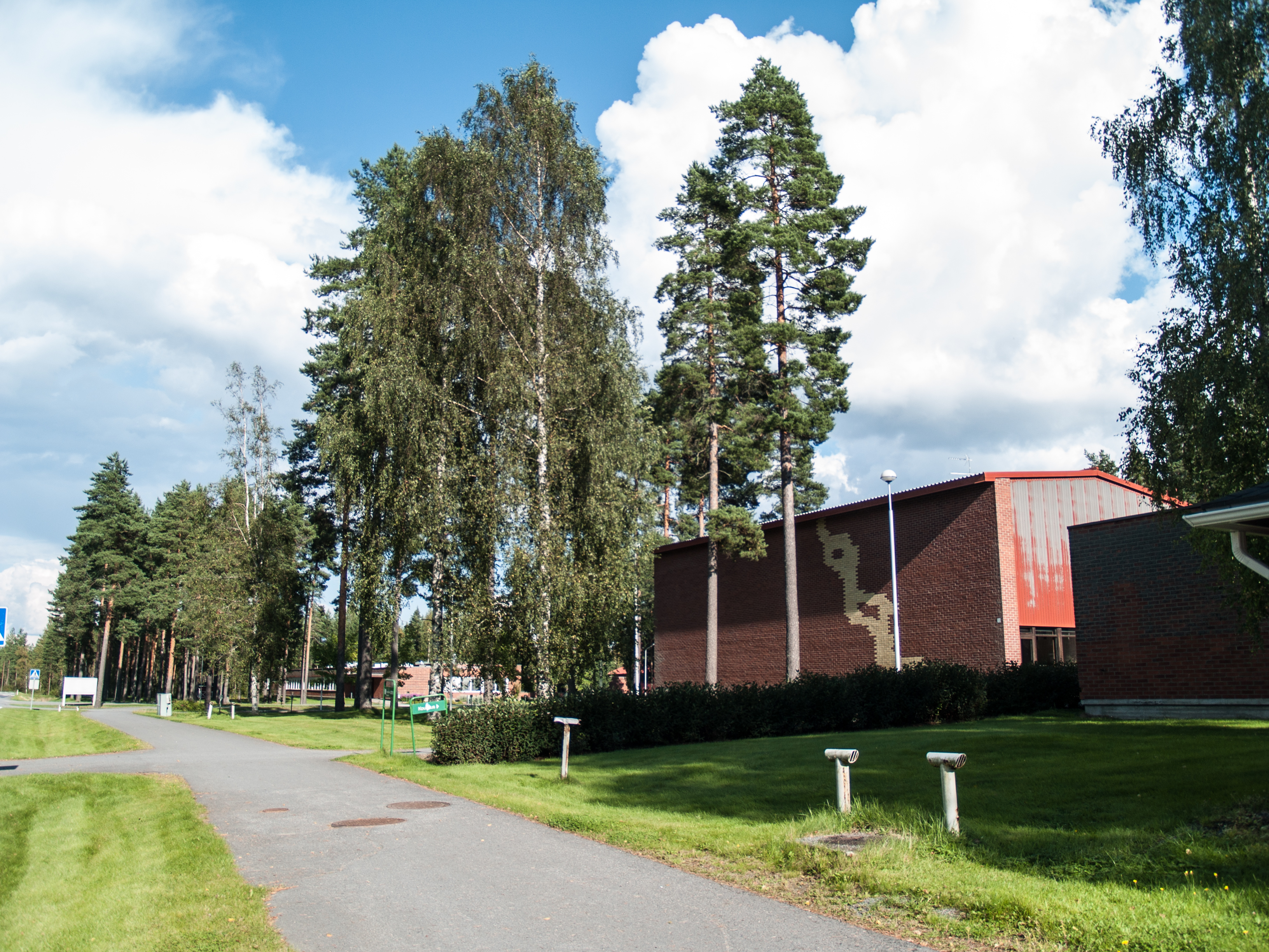 Care centre for developmentally disabled people, between Seinäjoki and Peräseinäjoki.